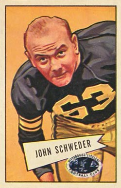 American football player John Schweder on a 1952 Bowman Large card.